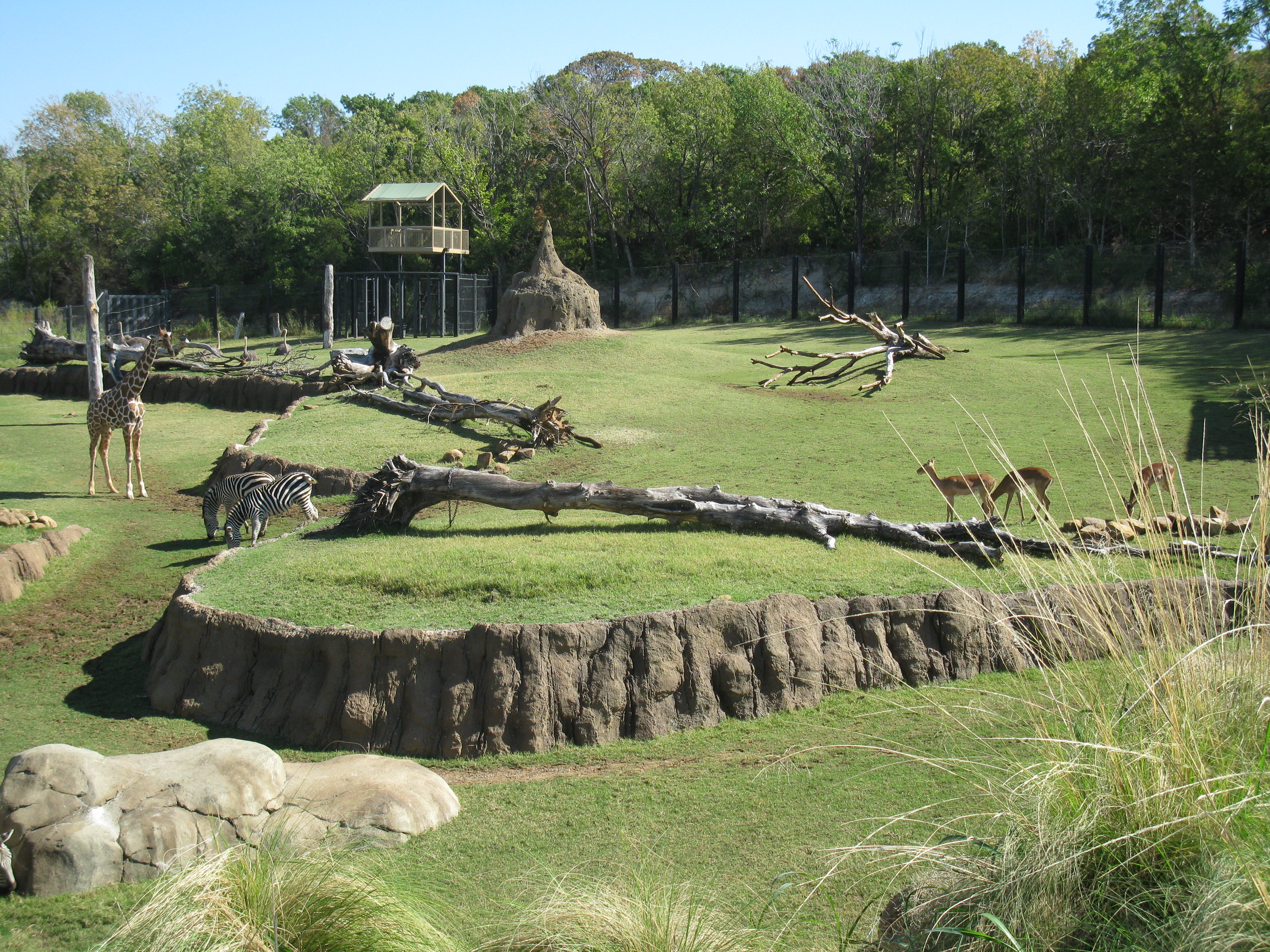 Giants of the Savanna Exhibit